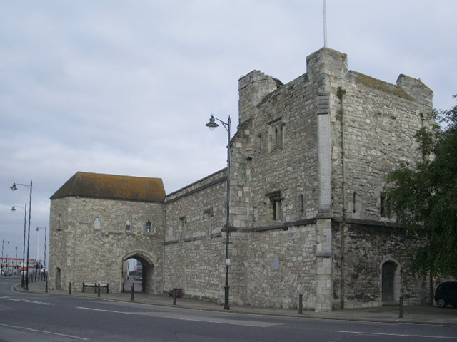 God's House Tower God's House Tower stands at the south-east corner of the town walls that once encircled medieval Southampton. For more information